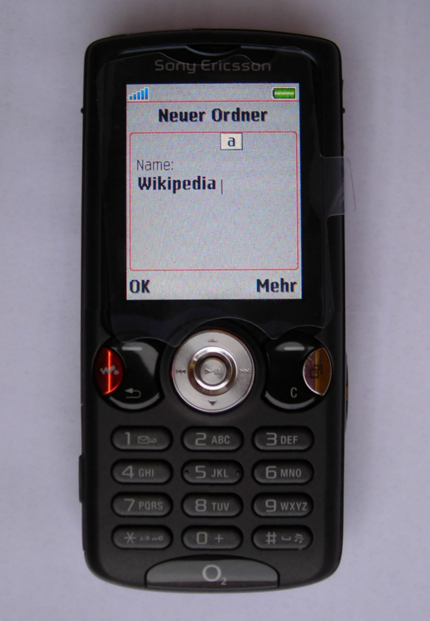 SonyEricsson W810i black - front (purchased in August 2007 in Germany).